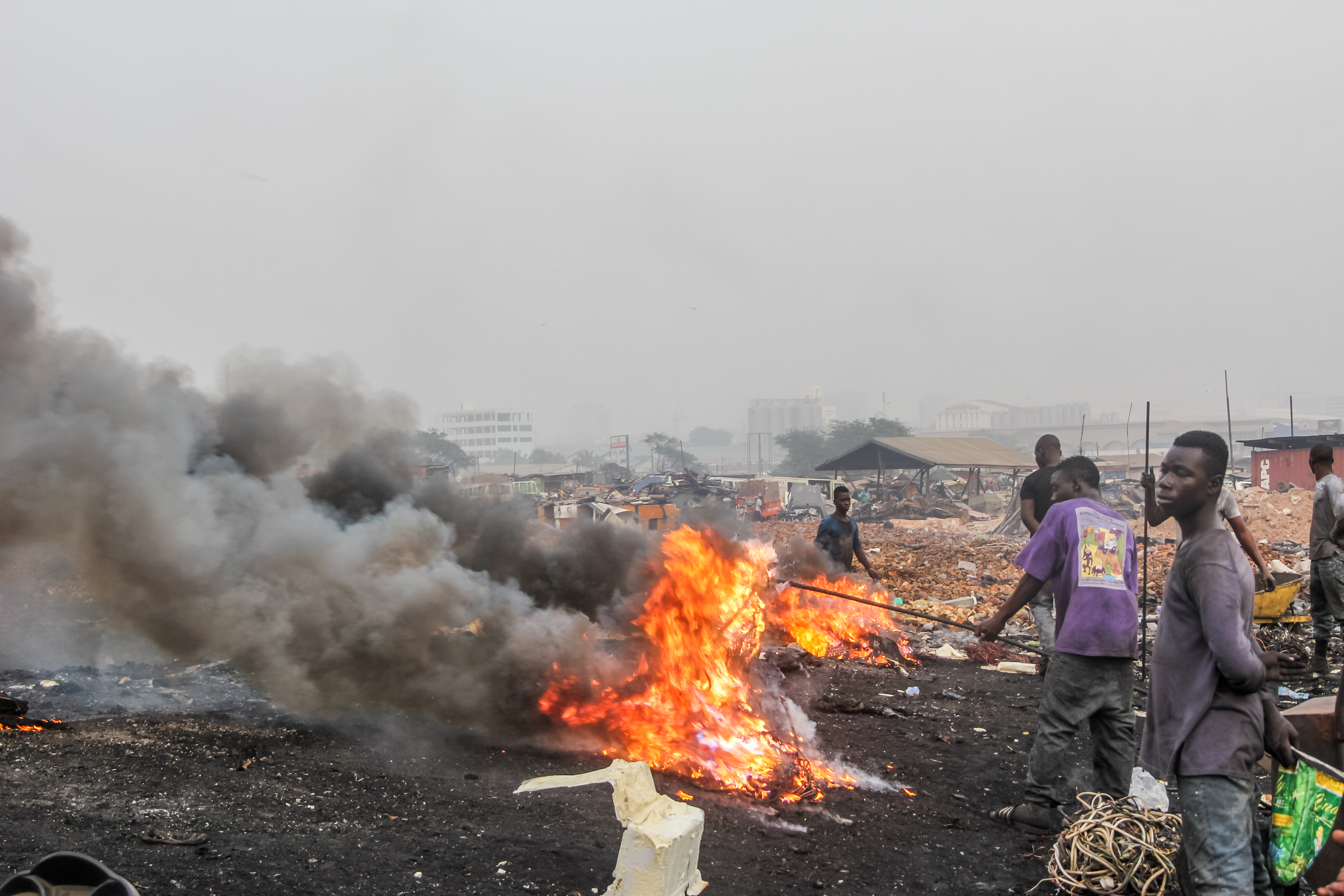 A metal scrap worker is pictured burning insulated copper wires for copper recovery at Agbogbloshie, Ghana. Tangled up wires ready to be burned for copper recovery are also seen near a metal scrap worker who is waiting to pick up copper pieces left in the soil after a burn.